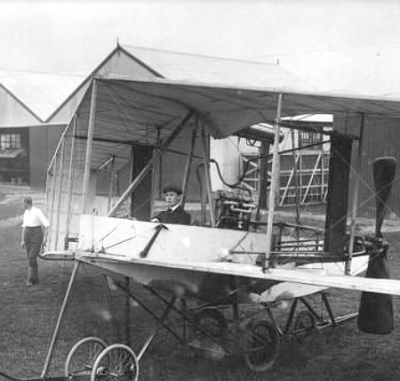 John William Dunne in his D.5 biplane at Eastchurch, 14 June 1910.